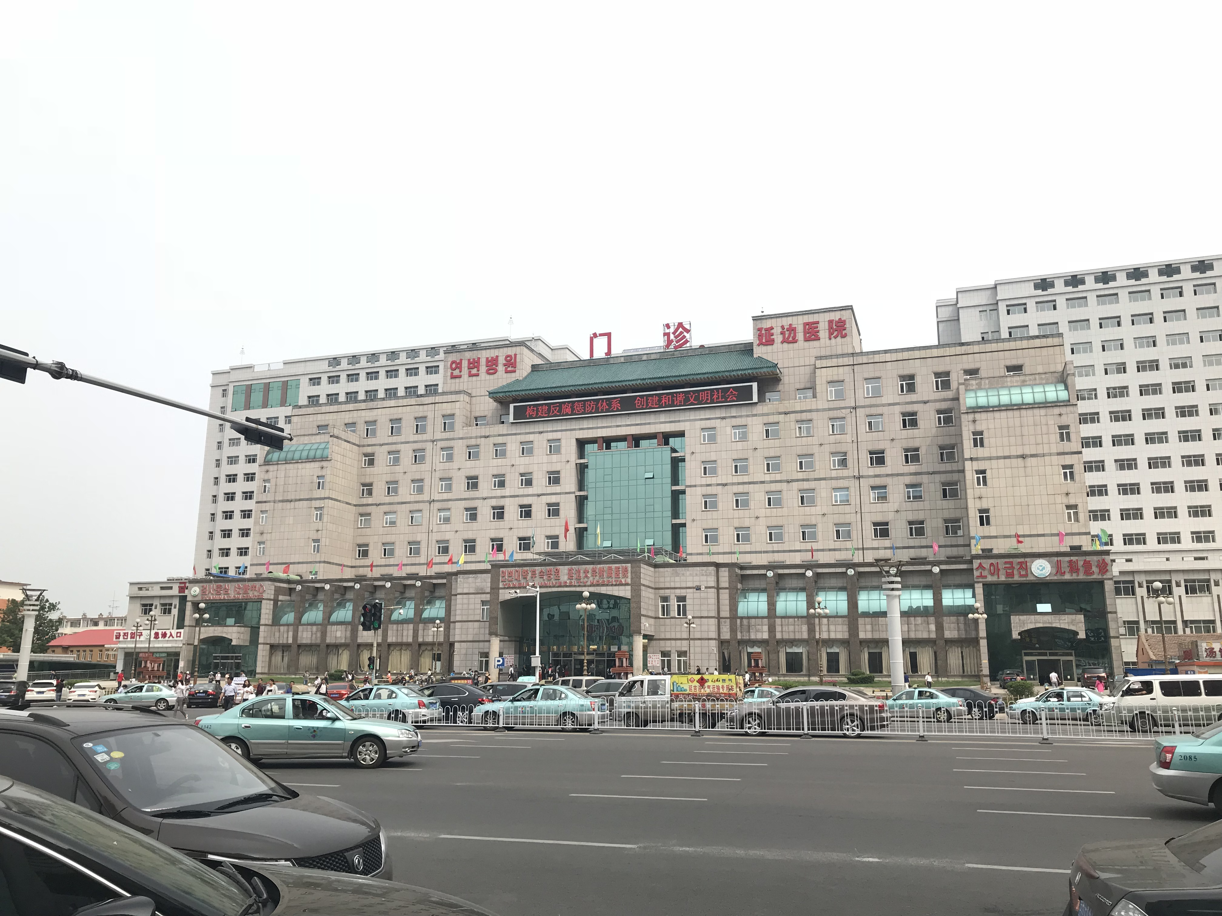 Yanbian University Hospital